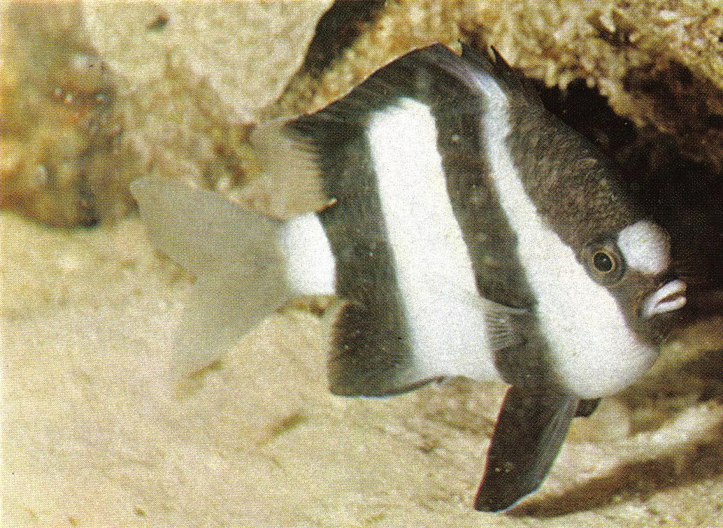 Humbug Damsel Fish (Dascyllus aruanus), Seychelles